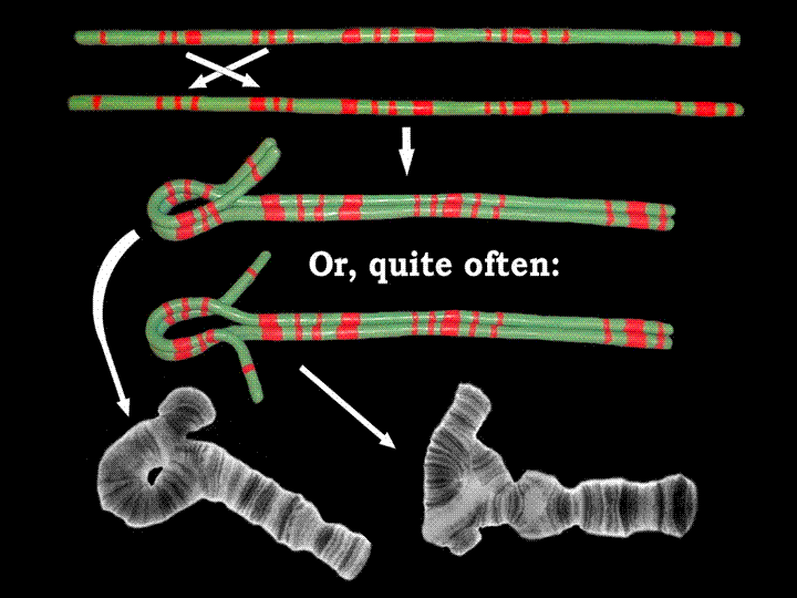 Author: SF Werle, original work: а clay model showing why heterozygous inversion loops are visible in polytene chromosome preparations